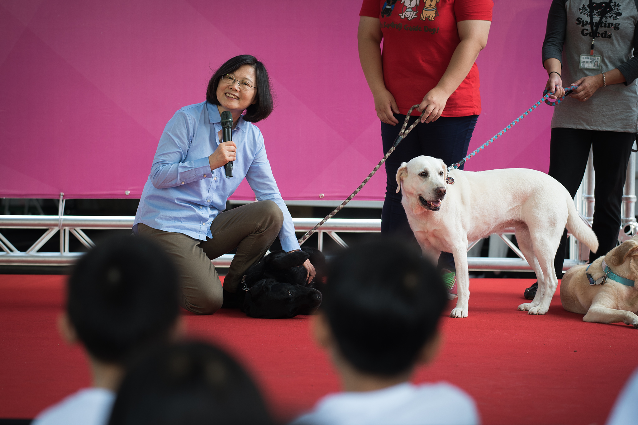 授權方式及範圍：中華民國總統府│政府網站資料開放宣告 Authorization Method & Scope: Office of the President, Republic of China (Taiwan) | Government Website Open Information Announcement